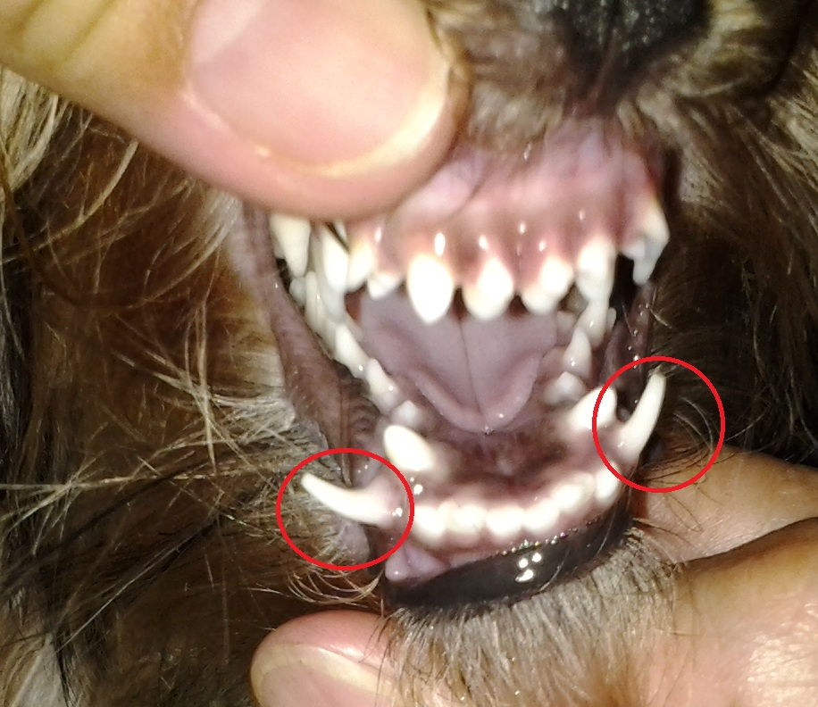 Yorkie's retained deciduous or baby fangs, circled in red. Both lower permanent fangs did not grow right underneath the baby fangs.